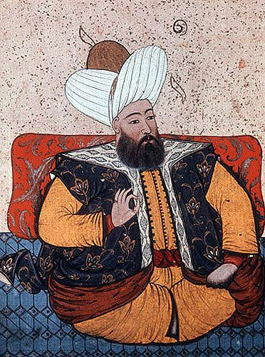 Sultan Murad II, portrait from 19th century manuscript.